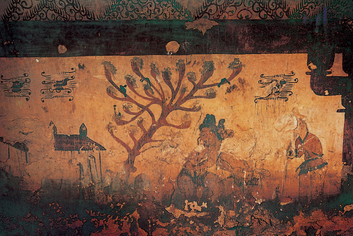 The Gakjeochong (각저총) mural, one of the Goguryeo tombs shows ssireum competition between Gogoryeo man and Seoyeokin (서역인, an Arab) in